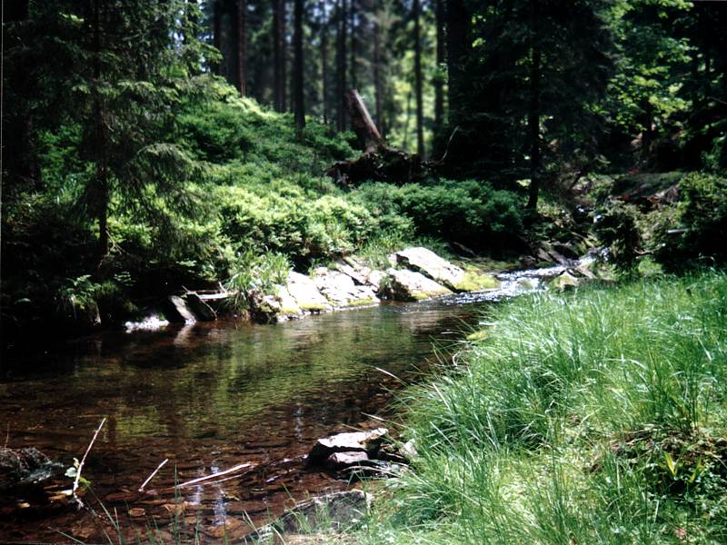 Sources of river Biała Lądecka (Poland).